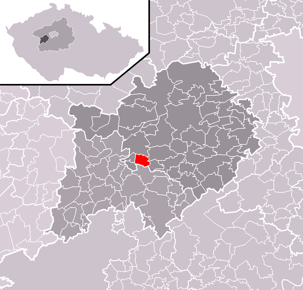 Location of Chodouň municipality within Beroun District and administrative area of Beroun as a Municipality with Extended Competence.